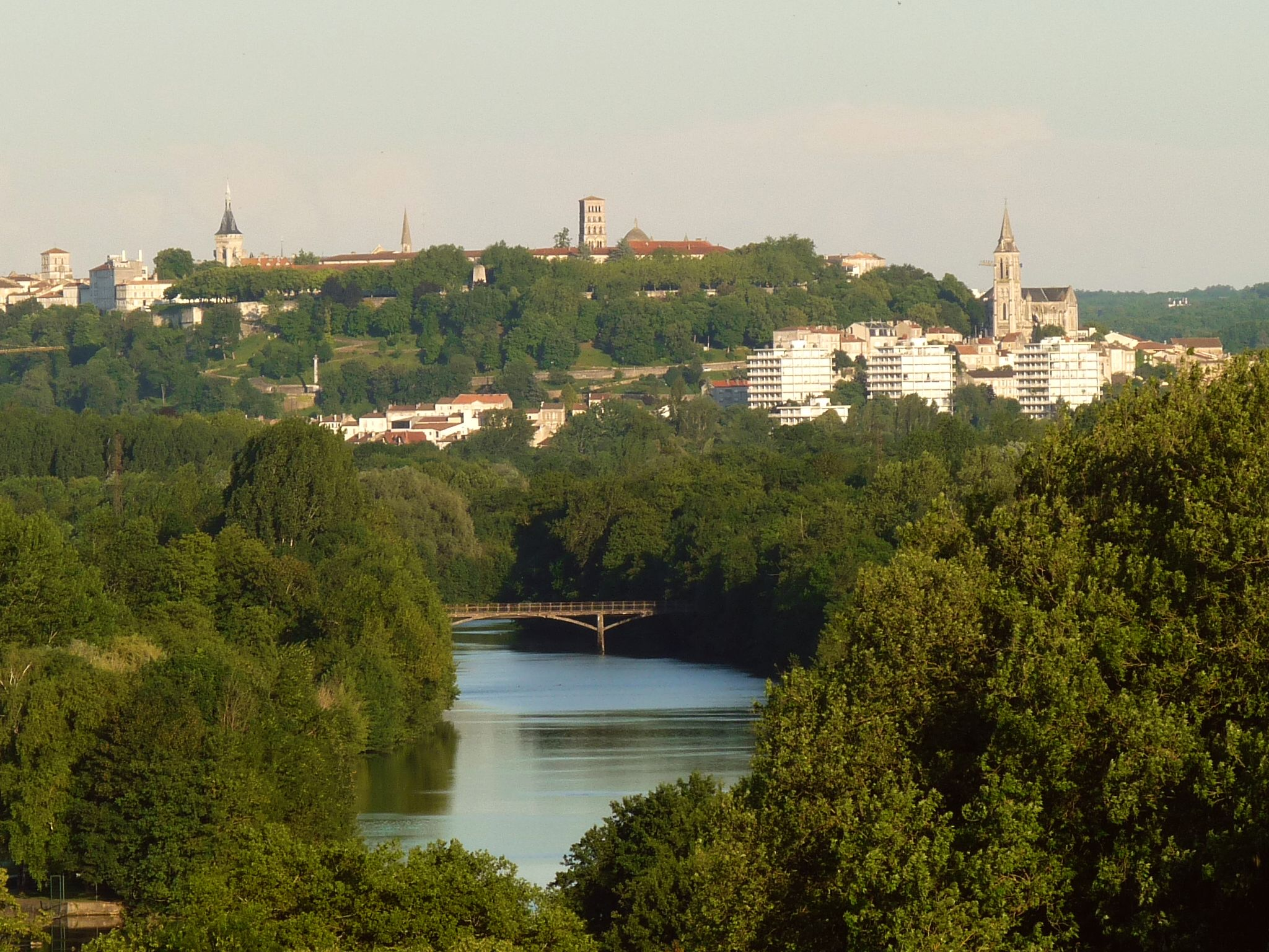 General view of Angoulême with Charente river (France) at sunset